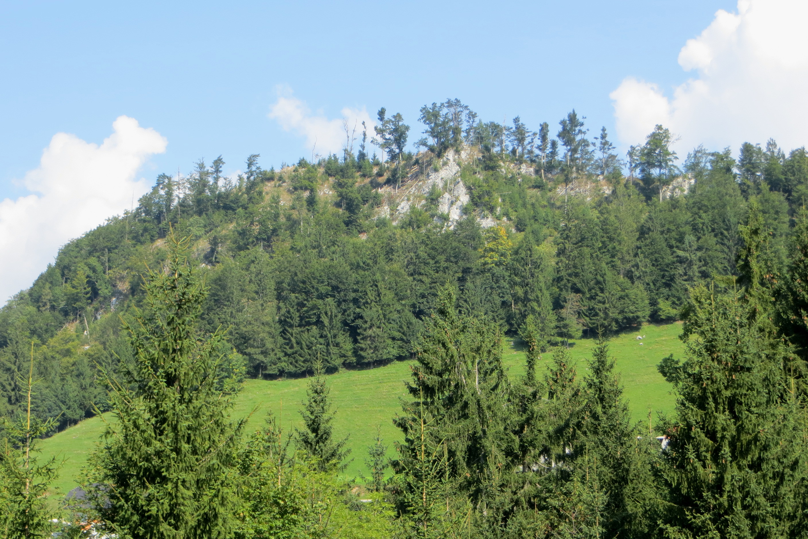 Sovina Peak (Sln. Sovinjski vrh) above Sovinja Peč, Municipality of Kamnik, Slovenia